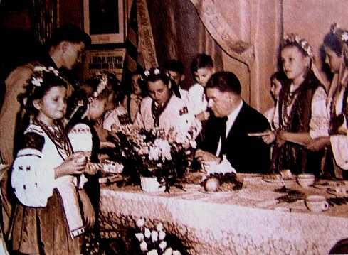 Hetmanych (Prince) Danylo Skoropadsky during an official visit to the USA on a meeting with Ukrainian community